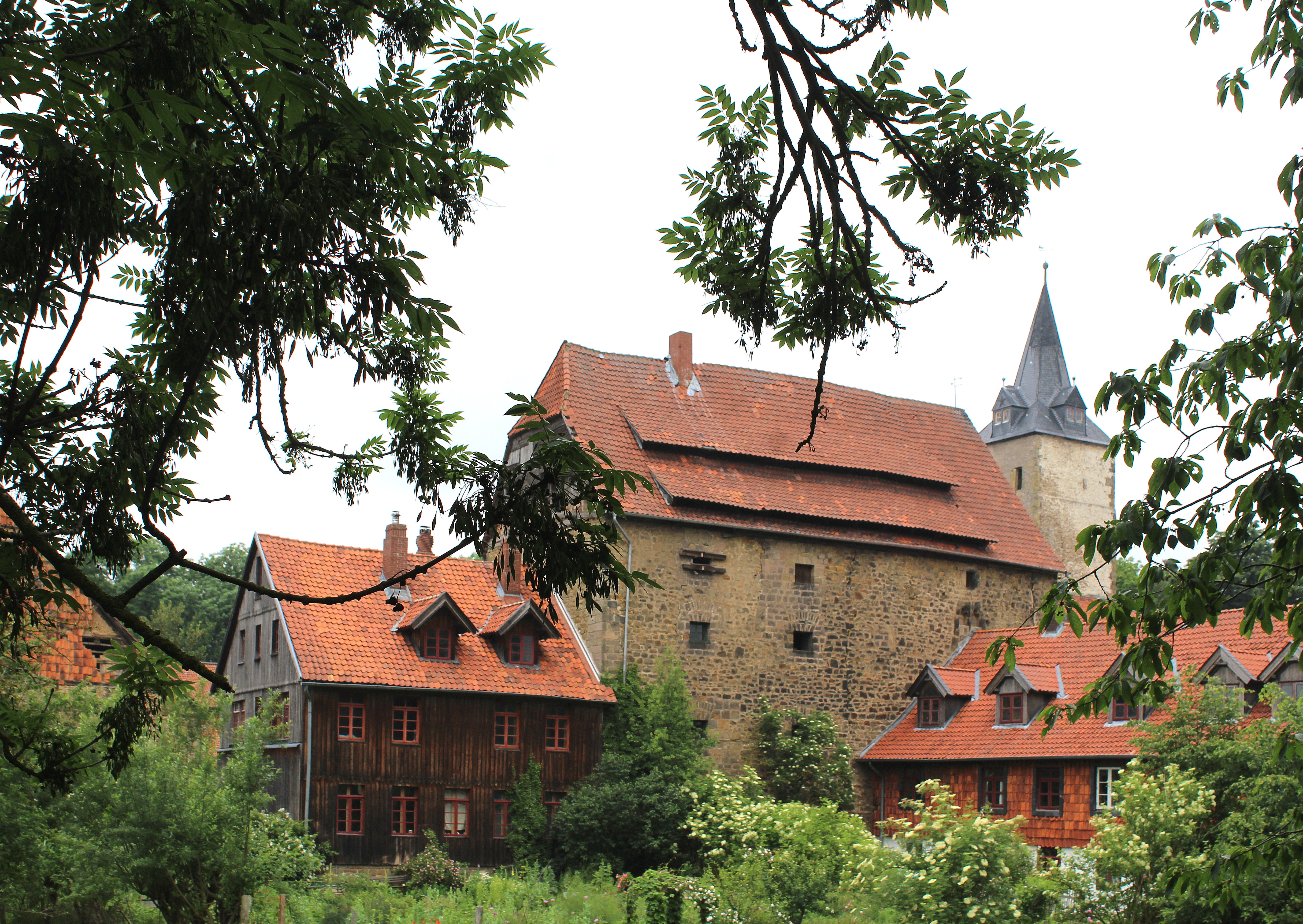 Lutter am Barenberge, the castle